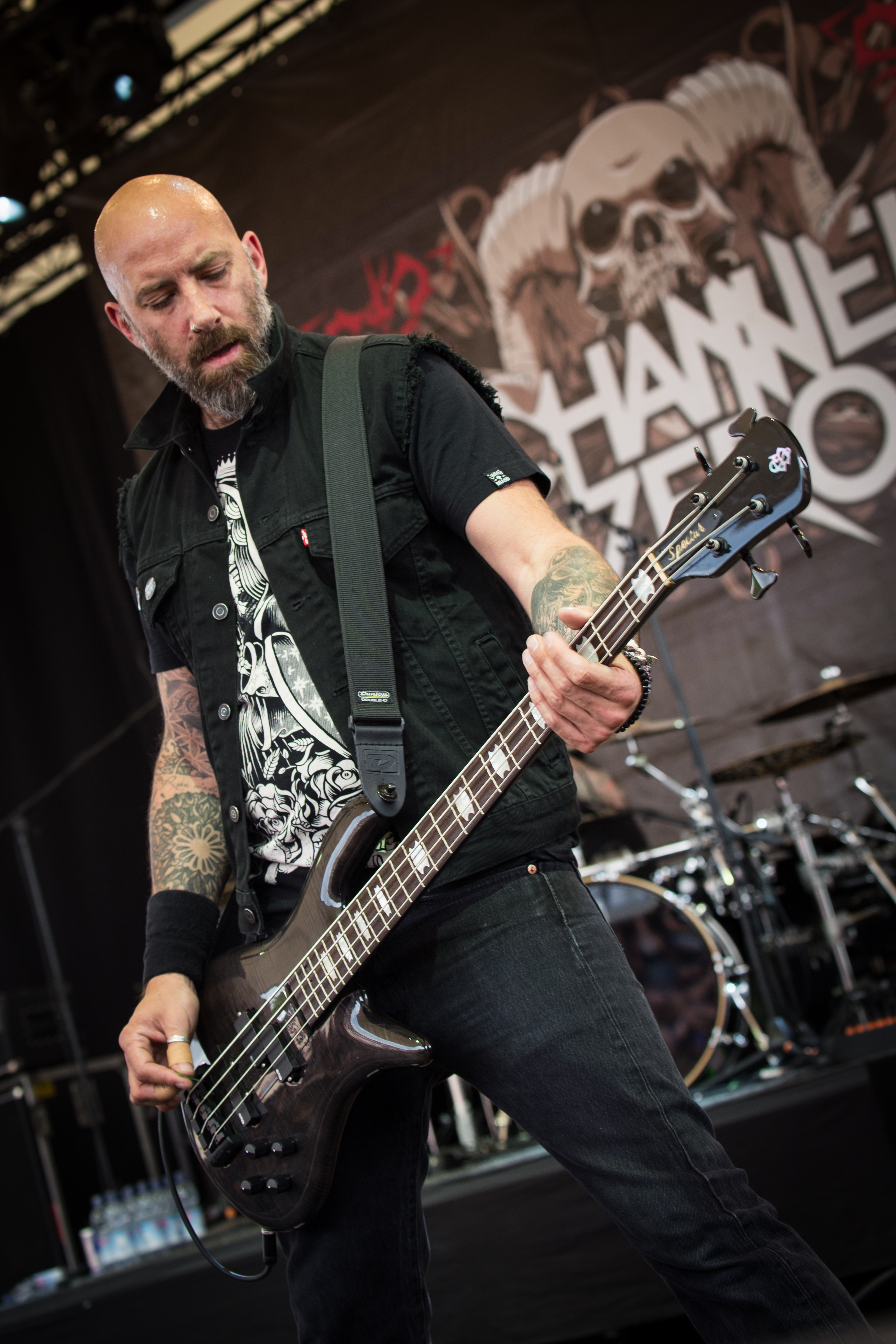 Channel Zero performing live at Rock Hard Festival, May 2015, Gelsenkirchen